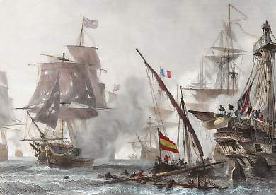 algesiras